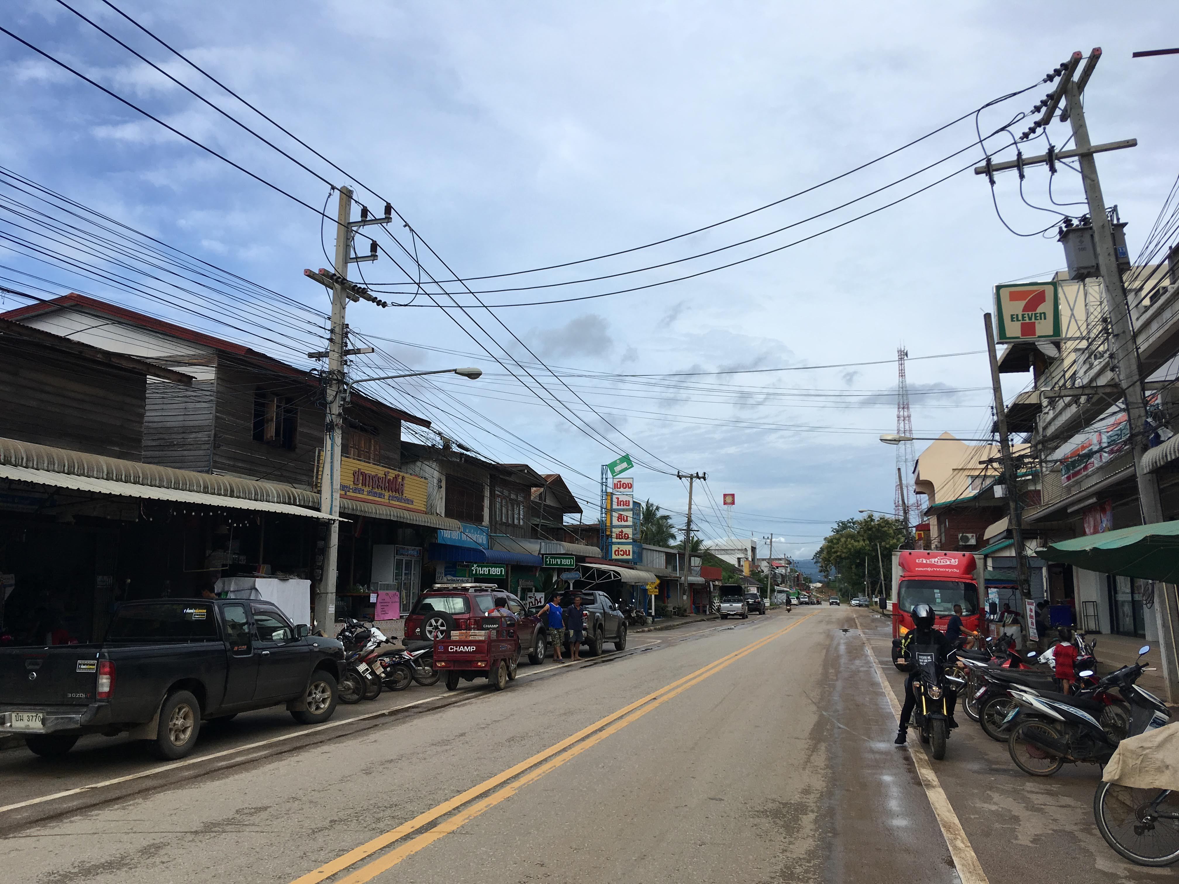 The Road 211 in Pak Chom, Loei Province.